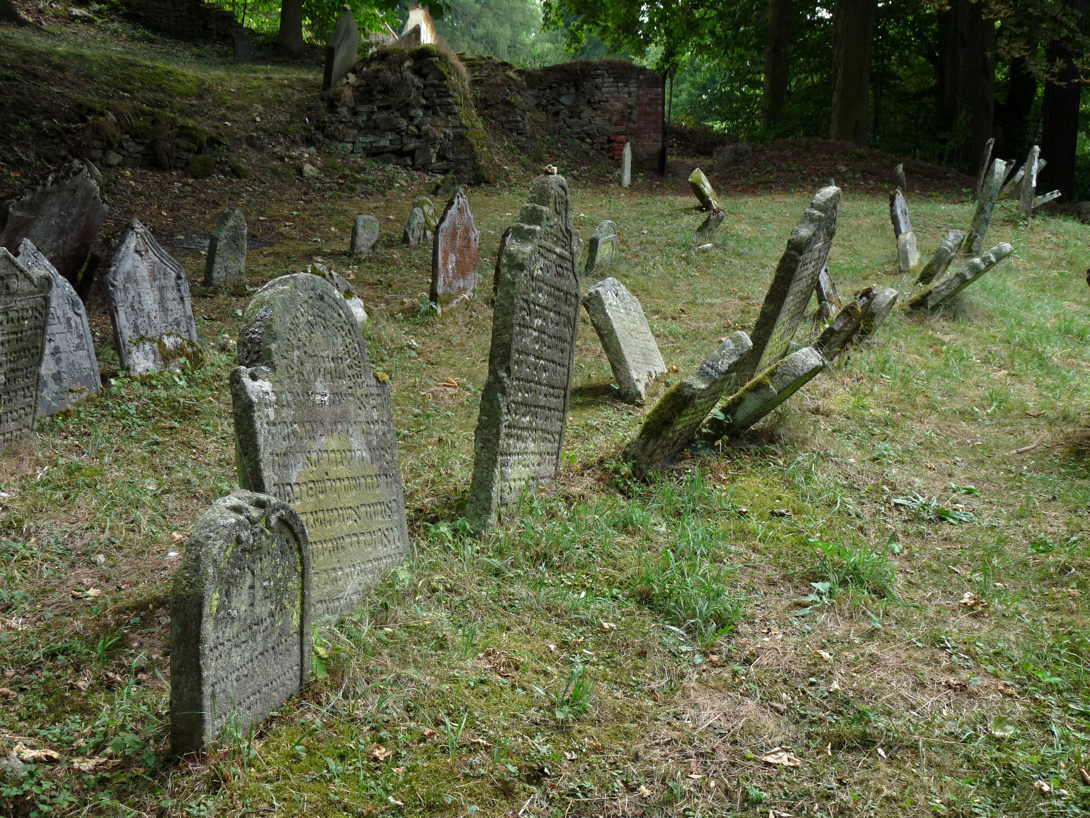 Gravestones in the old Jewish cemetery in the town of Brtnice, Jihlava District, Vysočina Region, Czech Republic.